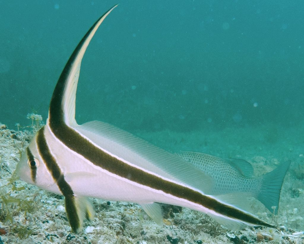 Equetus lanceolatus in Madagascar Reef, Campeche Bank, Mexico